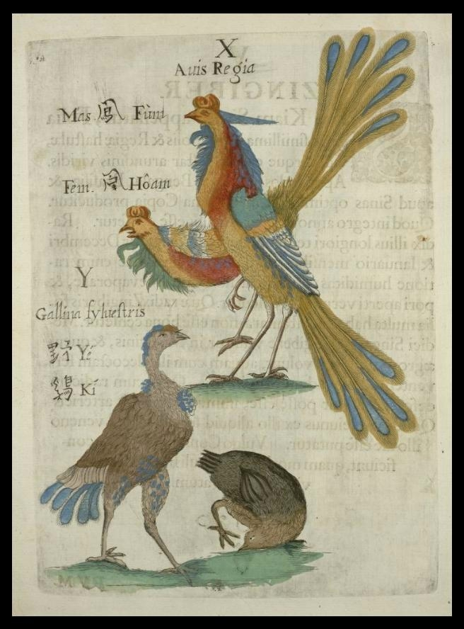 One of the earliest natural history books about China. Jesuit Missionary author. (obviously includes some non-Chinese {and non-floral}species). This image: Fenghoang (Avis regia) and the "forest chicken".